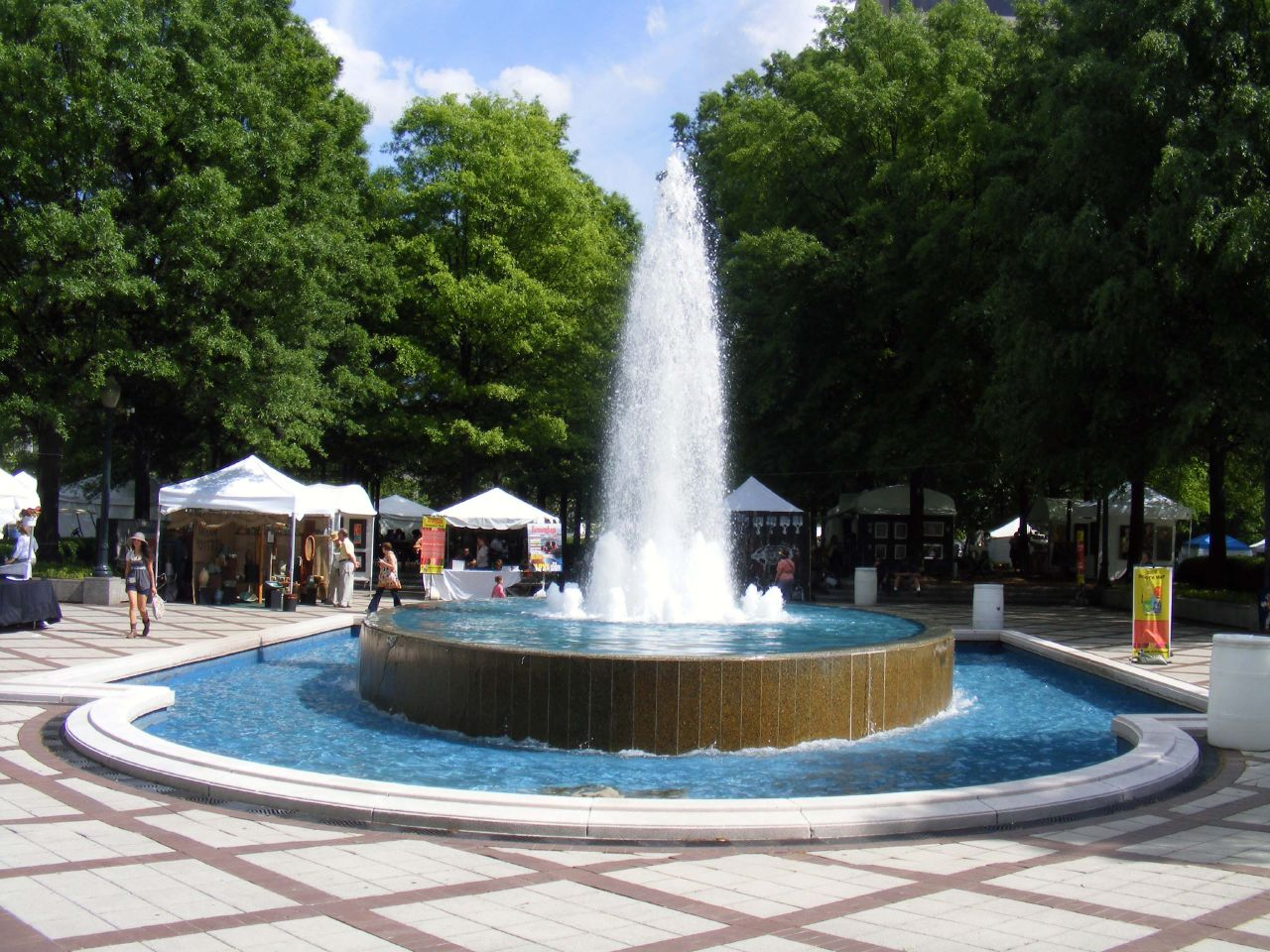 The fountain at Linn Park in downtown Birmingham, Alabama during the 2008 Magic City Art Connection celebration.